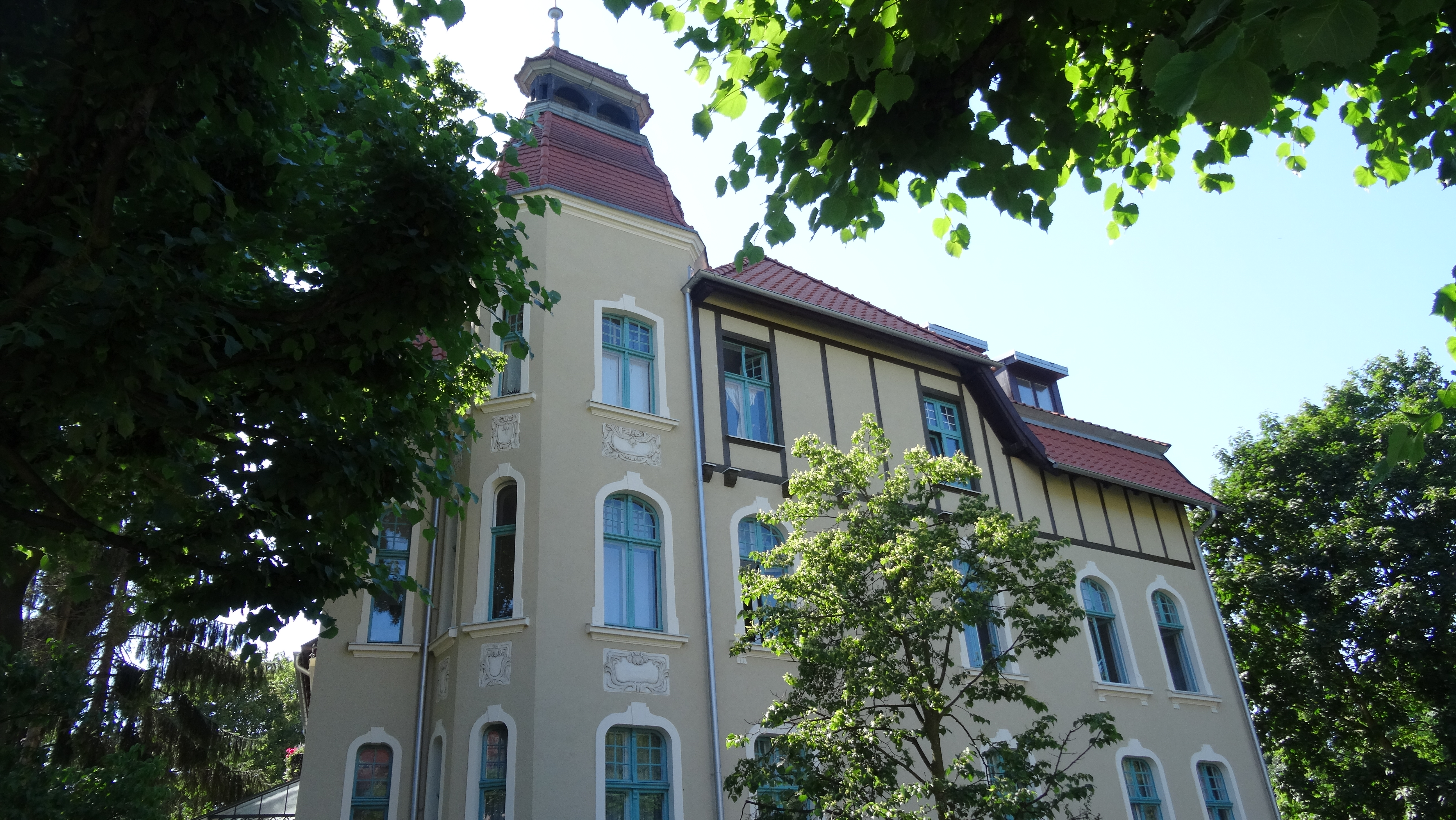 Sopot Lipowa 9 str. house (1904)